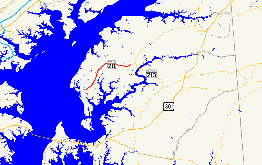 Map of Maryland Route 20